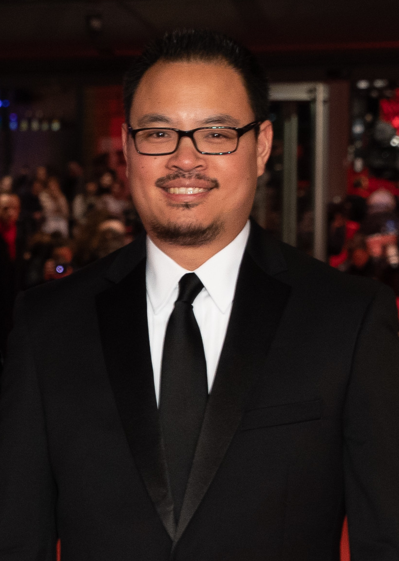 The International Jury of the 2019 Berlin International Film Festival on the Red Carpet at the Closing Gala